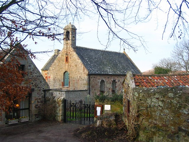 Morham Church. Centrepiece of a lost village. Now Morham is a series of scattered farming townships.